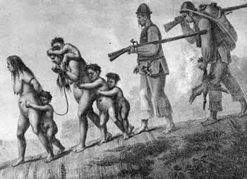 A Guarani family captured by Indian slave hunters. A fragment from a painting by Jean Baptiste Debret.